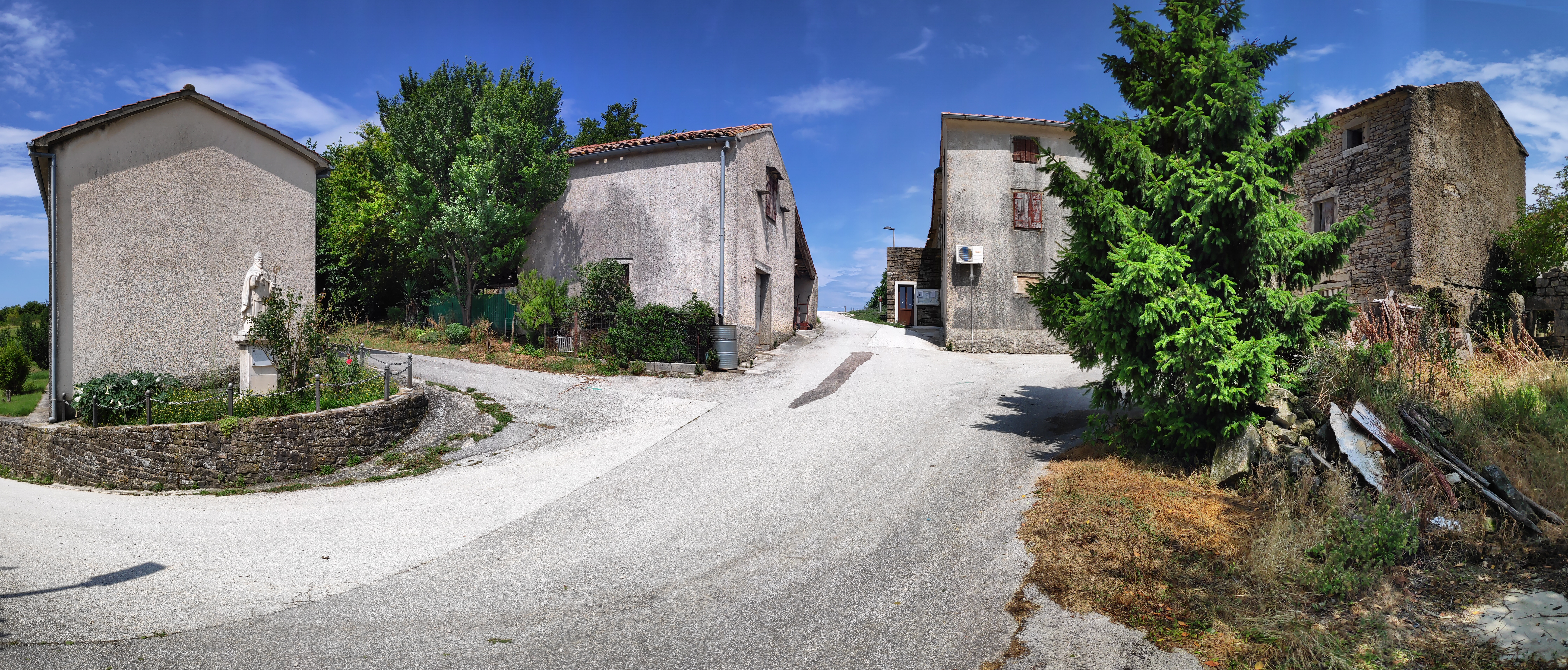 Zamask (Istra)